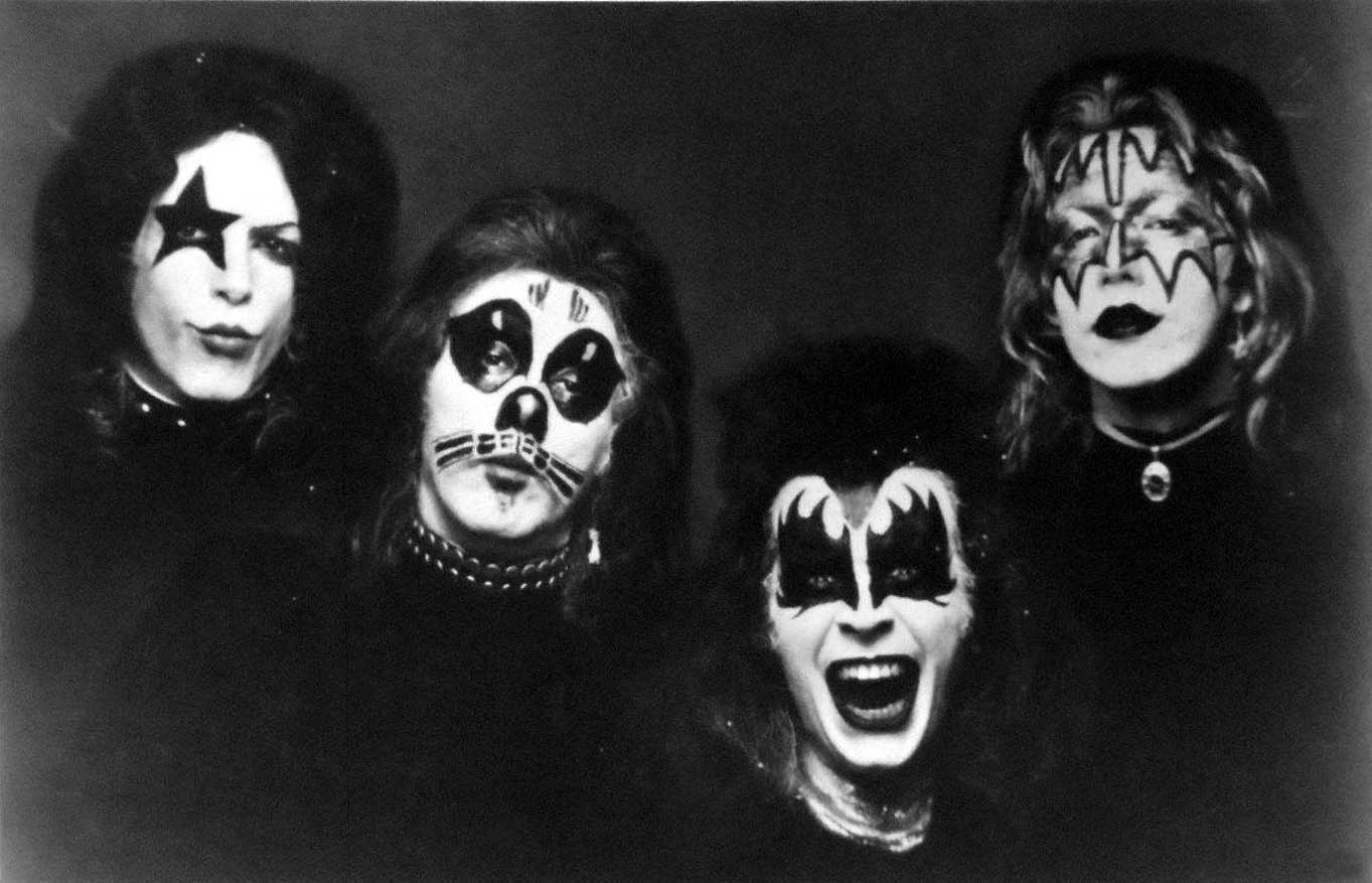 American rock band Kiss.